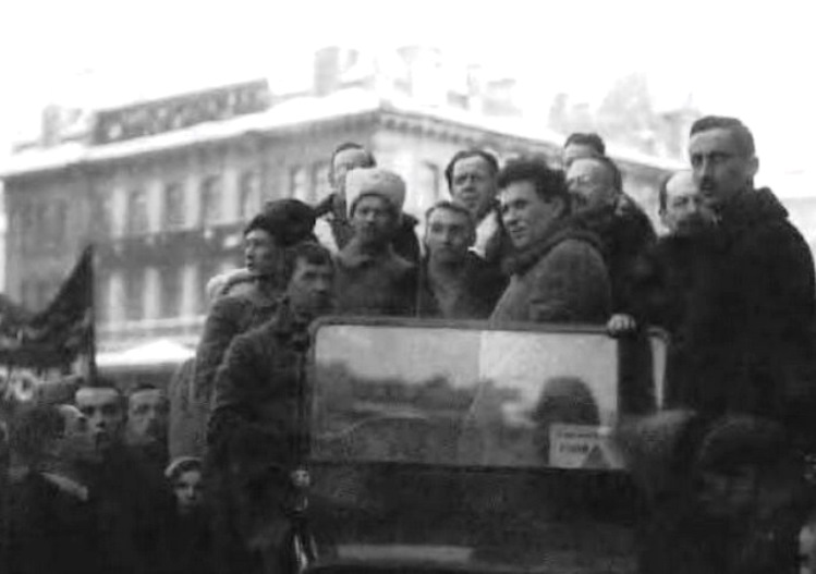 Grigory Zinoviev, Anatoly Lunacharsky, and foreign delegates to the Second Comintern Congress, Petrograd. Zinoviev is in the front passenger seat of the car, flanked by Karl Steinhardt (Austria; middle row, to Zinoviev's left); Fritz Platten (Switzerland; back row, between Steinhardt and Zinoviev); Lunacharky (to Zinoviev's right, face partly obstructed); and Hugo Eberlein (Germany; back row, partly obstructed by Lunacharsky). Also pictured are Otto Grimlund (Sweden; back row, left, face partly obstructed by man in Cossack hat) and Jacques Sadoul (France; to the left of the car, in profile, addressing Zinoviev).